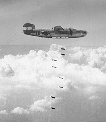 Consolidated B-24J-55-CF Liberator 44-10492 491st BG 853rd BS